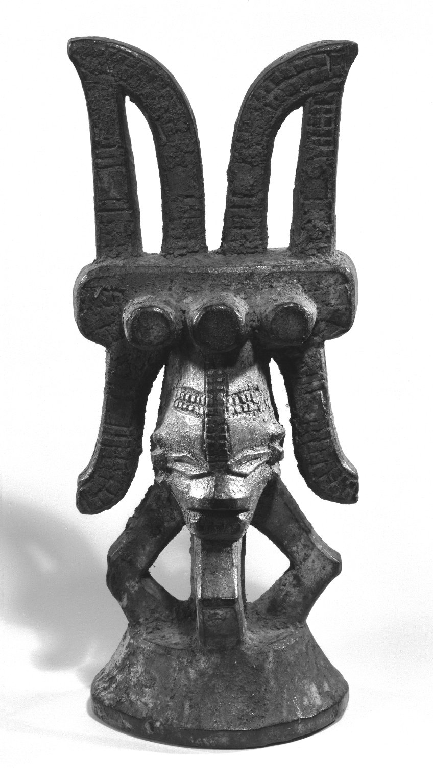 Small, dark wooden ikenga (sculpture for the hand) with sacrificial patina. At the bottom is the stool-like element composed for four angular flexed legs. In the middle is a head with a chip carved cross shape in the center of the forehead, and another cross shape on the back. facial features are indicated. Surmounting the head are two looped horns with chio carved decoration and which are void in the center. At the base of the horns is a band with three projecting knobs on front and back. Below the band a flared appendage, continuing the line of the horns, extends down on either side of the head. CONDITION: Very good. Some evidence of wear throughout; very small areas of patina missing from flexed legs.